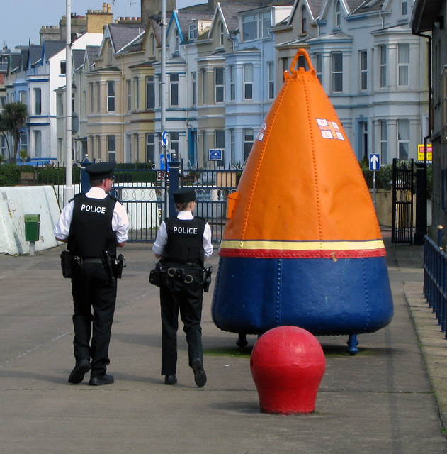 Two officers from the Police Service of Northern Ireland